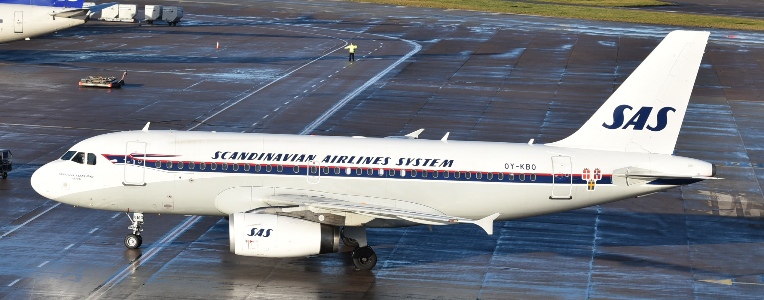 Airbus A319 of SAS Scandinavian Airlines,in retro.clrs., at Manchester-MAN,04/02/17.